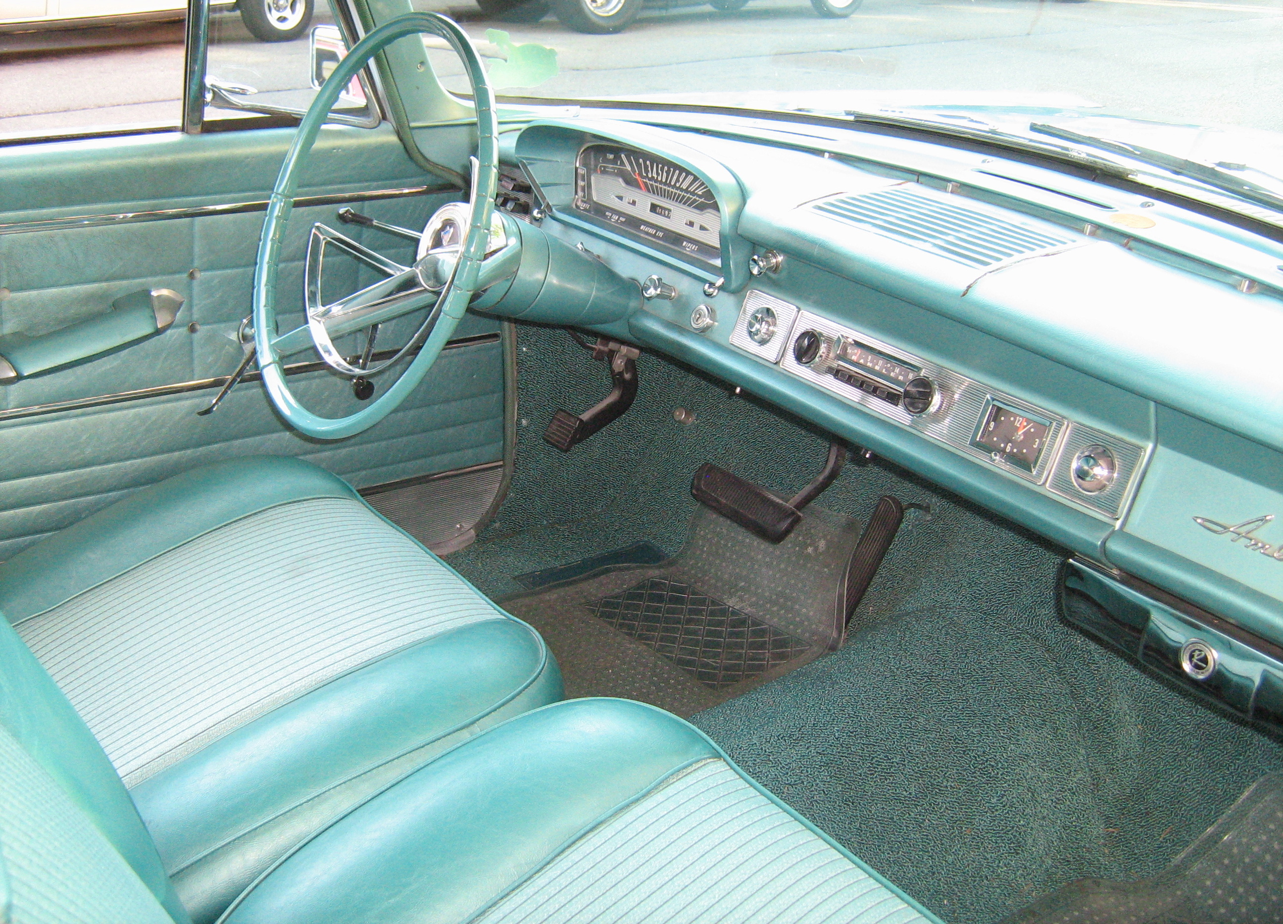 1962 Rambler Ambassador 400 model, two-door sedan, interior view. Built by American Motors Corporation (AMC) and finished in green with a white roof. Photographed in Kenosha, Wisconsin, USA.